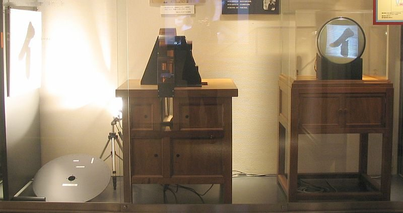 Recreation of a pioneering TV transmission experiment conducted by Kenjiro Takayanagi, on show at the NHK Broadcasting Museum in Minato-ku, Tokyo